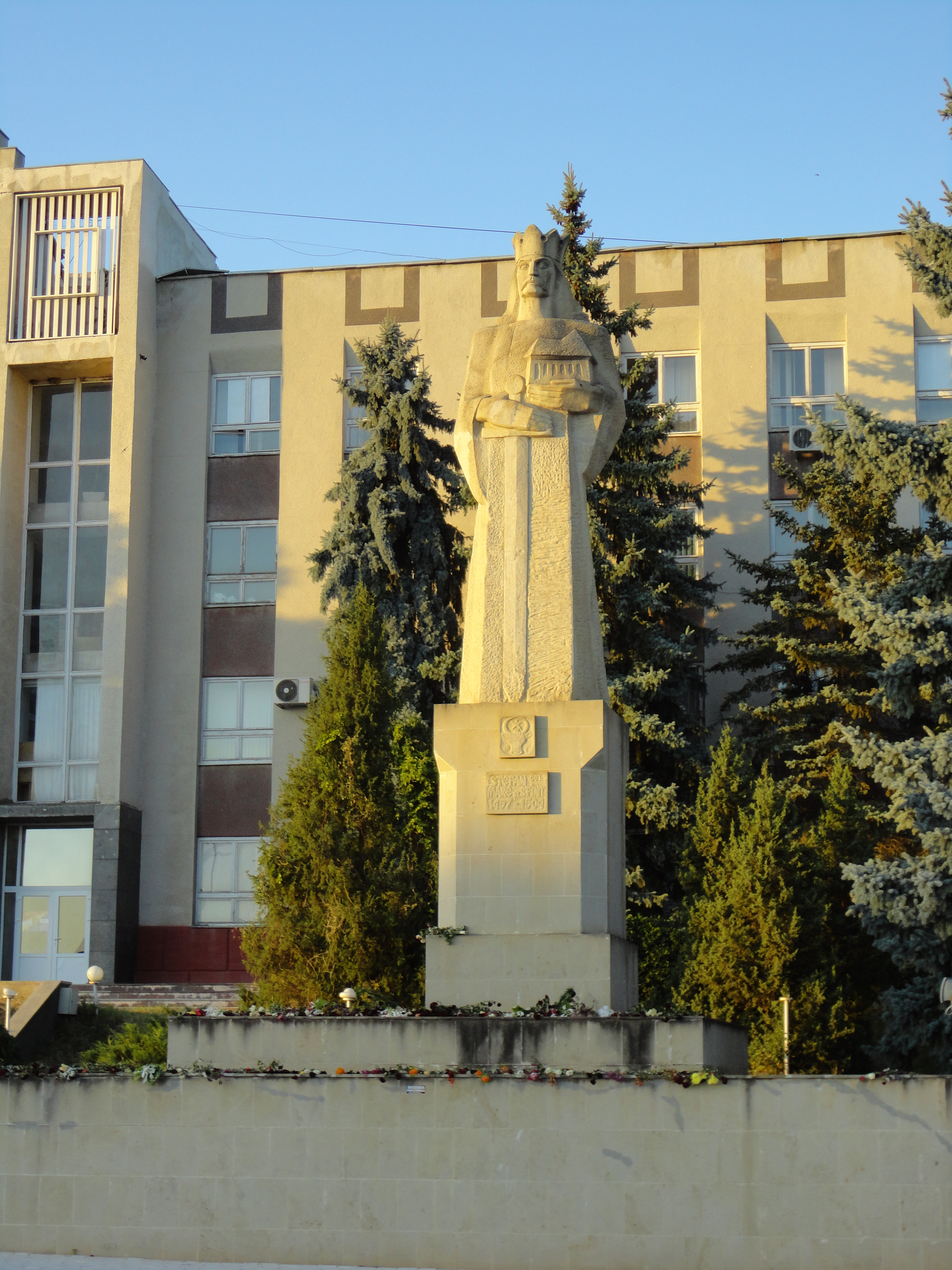 Nisporeni, Republic of Moldova.